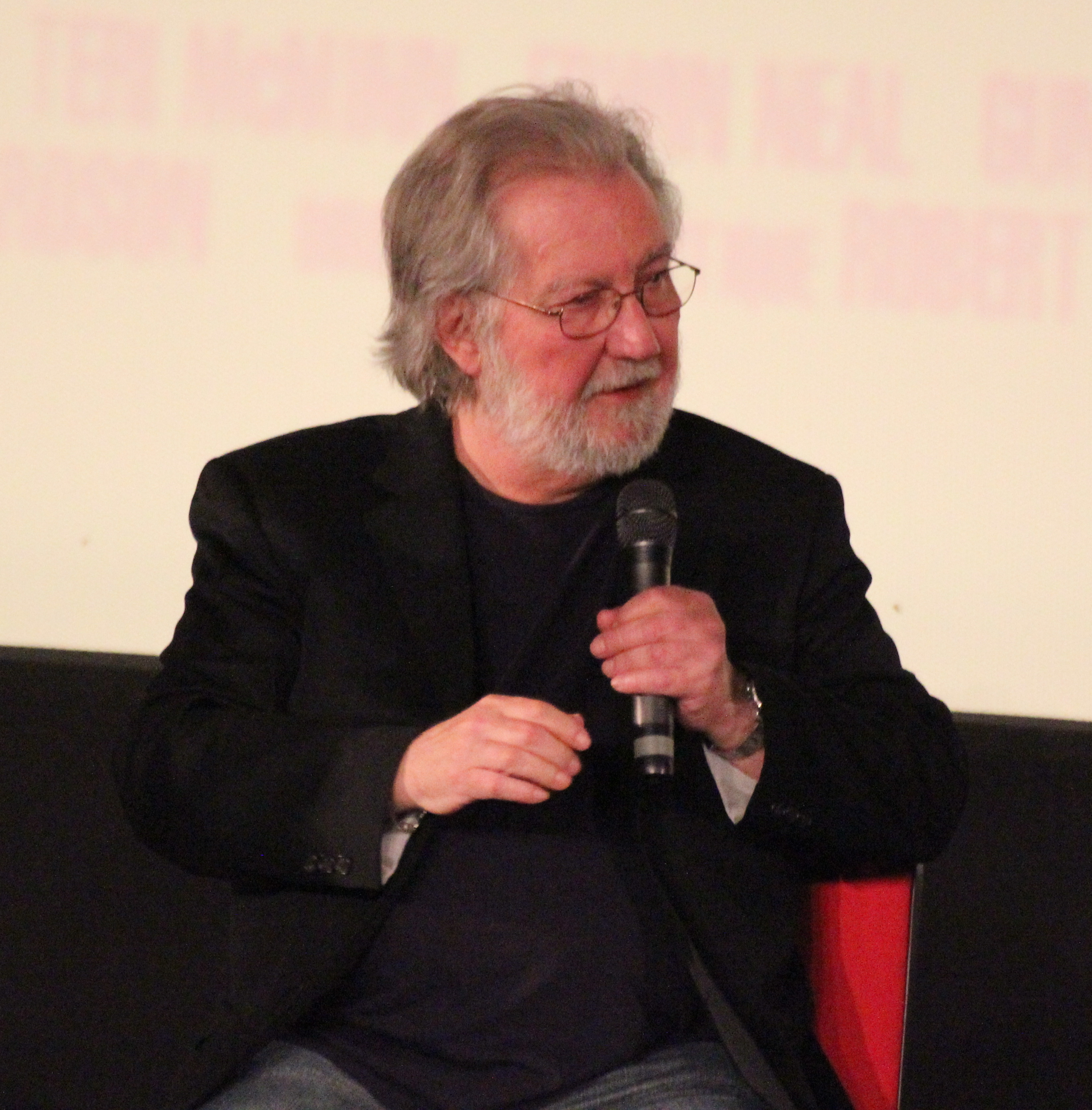 The Texas Chainsaw Massacre - 40th anniversary of the film - event at the Grand Rex September 23, 2014 in Paris, France. Object location48° 52′ 13.52″ N, 2° 20′ 51.16″ E